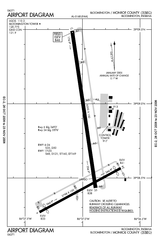 Airport map for Monroe County Airport category:Monroe County Airport category:Federal Aviation Administration category:Maps